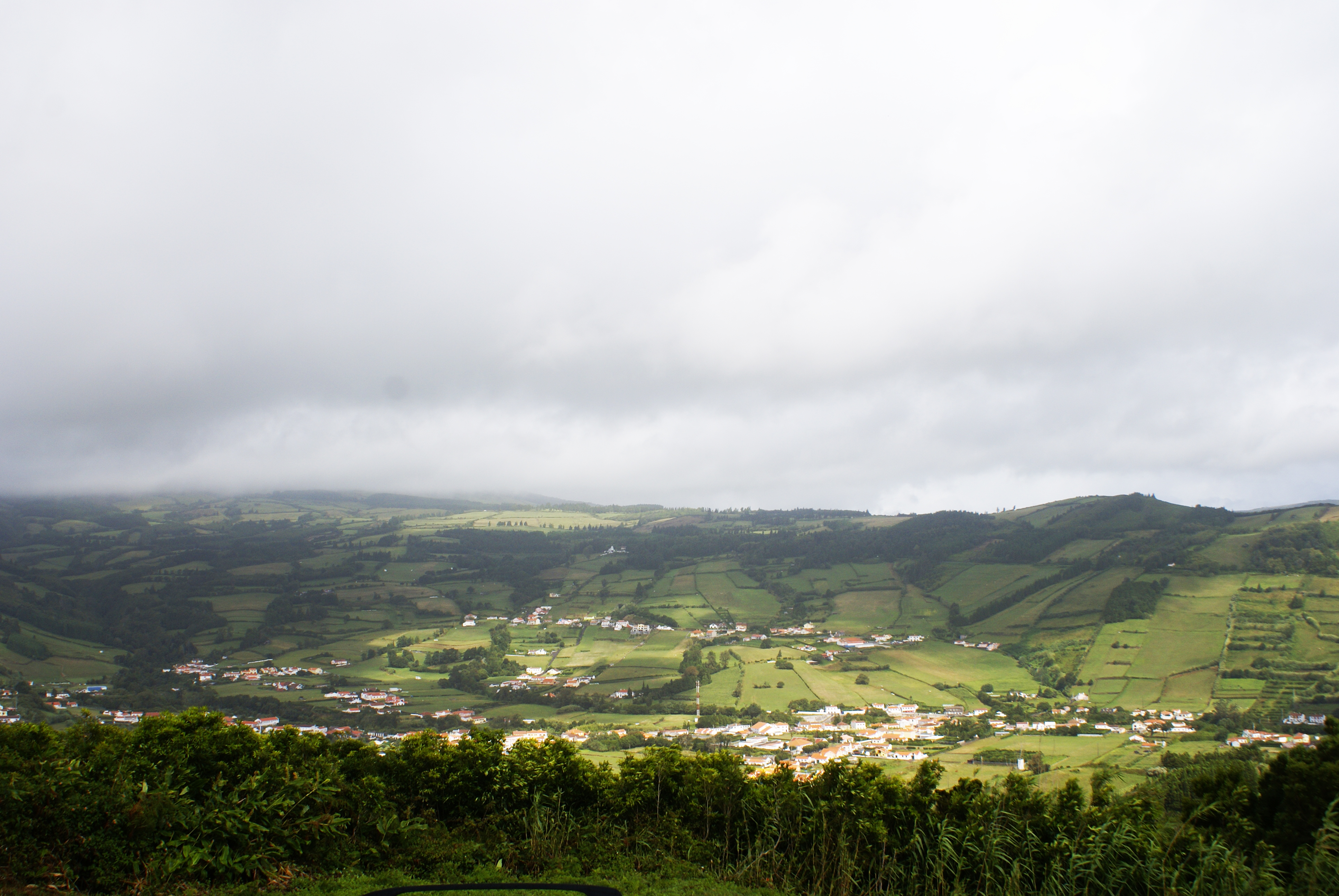 Miradouro do Monte Carneiro, Flamengos, concelho da Horta, ilha do Faial, Açores, Portugal